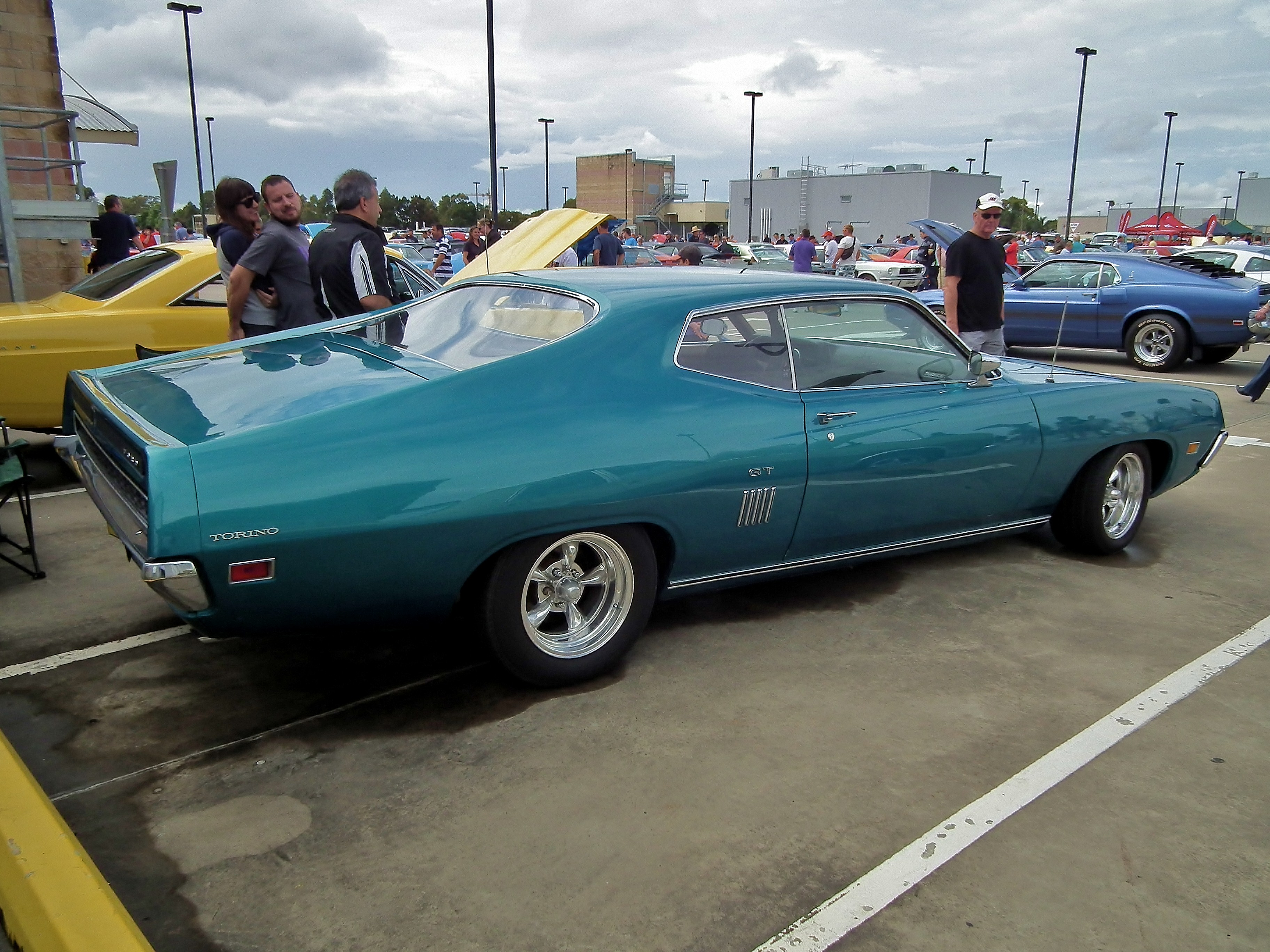 1970 Ford Torino GT coupe. Taken at the 2012 New South Wales All American Day, held at Castle Towers Shopping Centre, Castle Hill, Sydney.